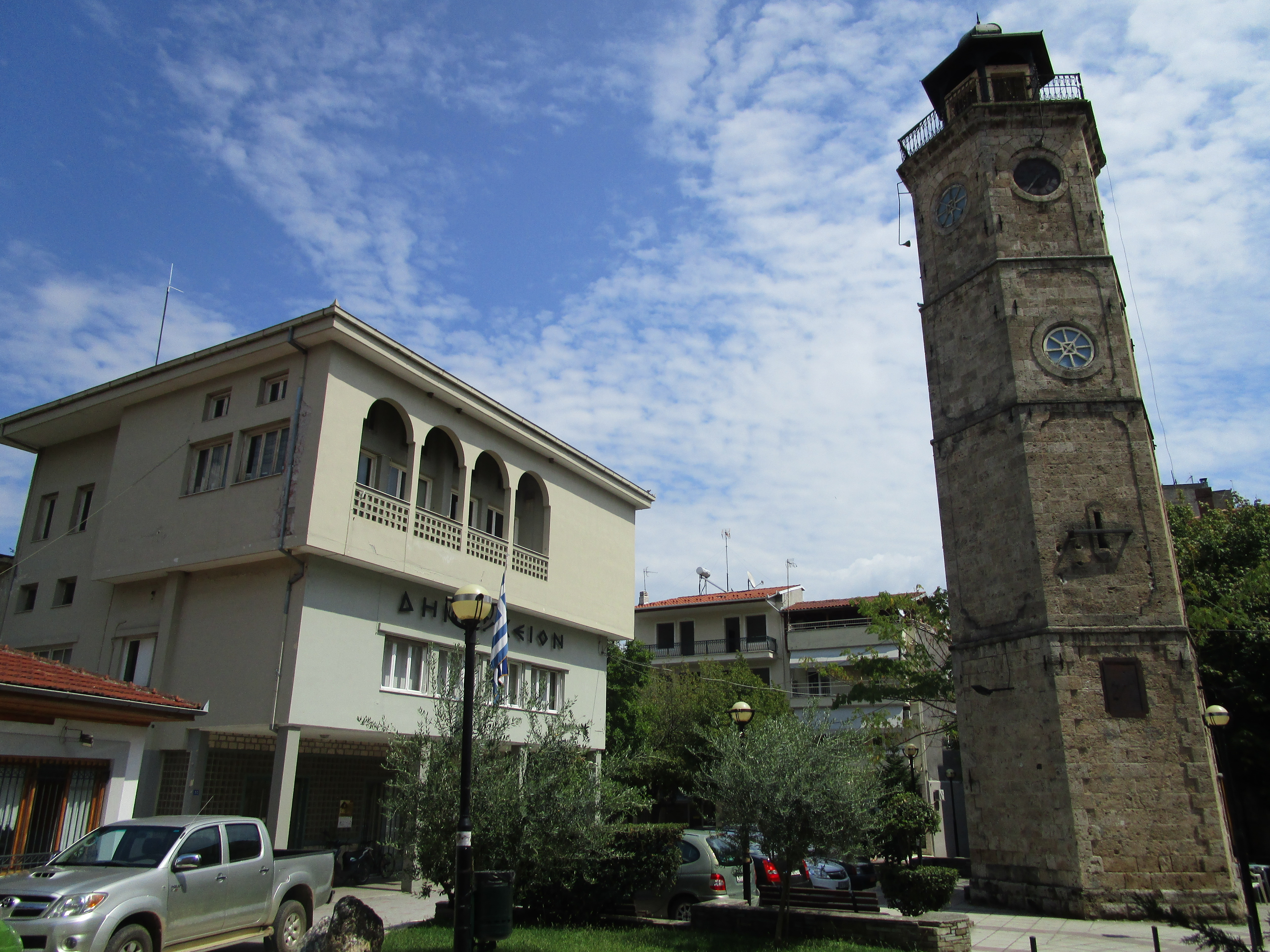 Buildings in Naousa